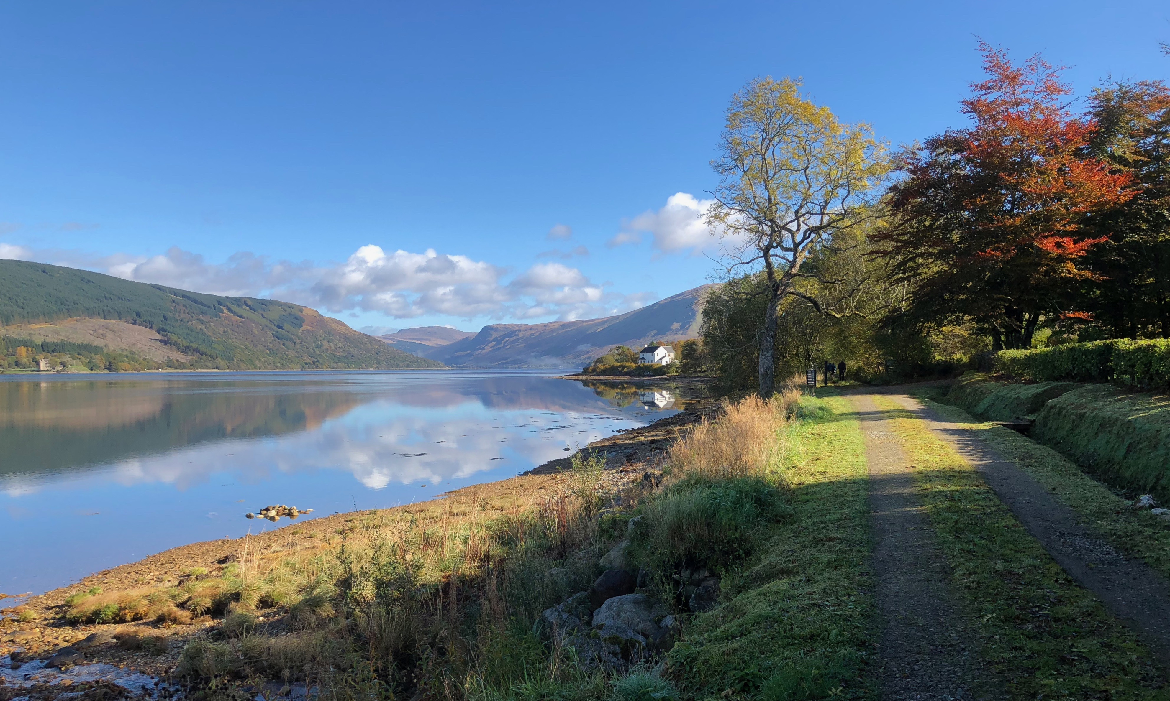 The head of Loch Fyne, with a reflection of Àird na Slaite house seen from Tighcladich, near St Catherines. On the far left, Dunderave Castle stands on the opposite shore.